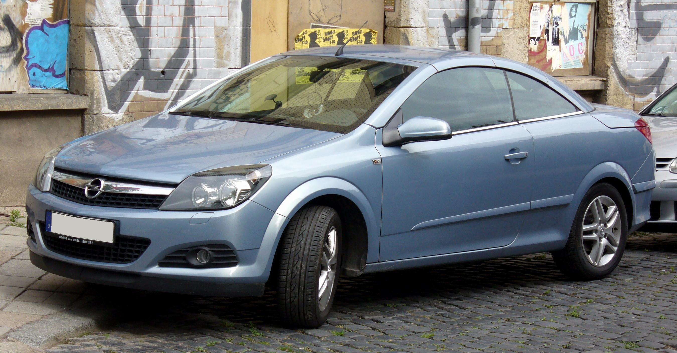 Opel Astra TwinTop